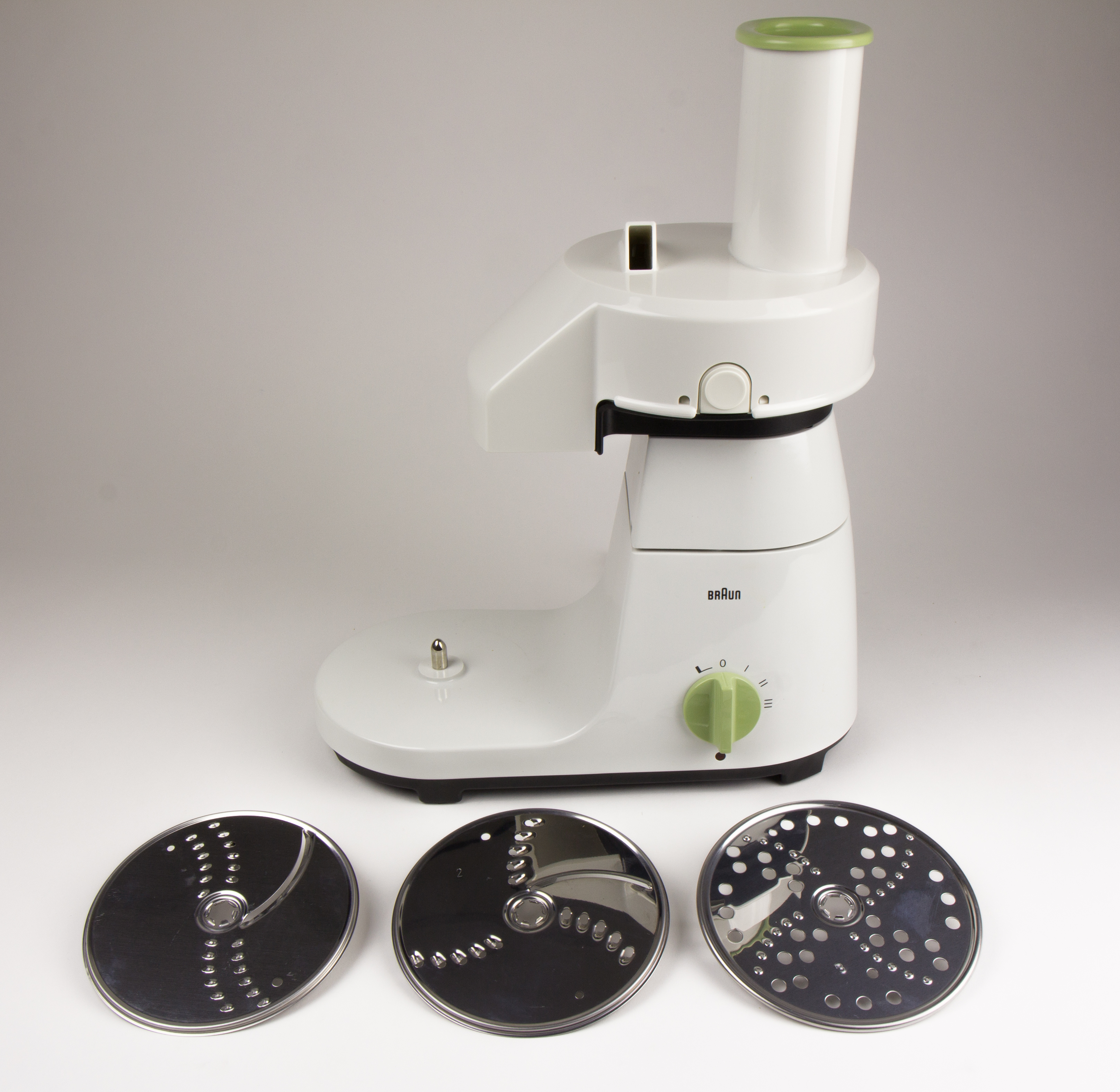 Braun Kitchen Machine (model KM 32) or “food processor“, ca. 1985–1993. Shredder (KS 33) + 3 working discs